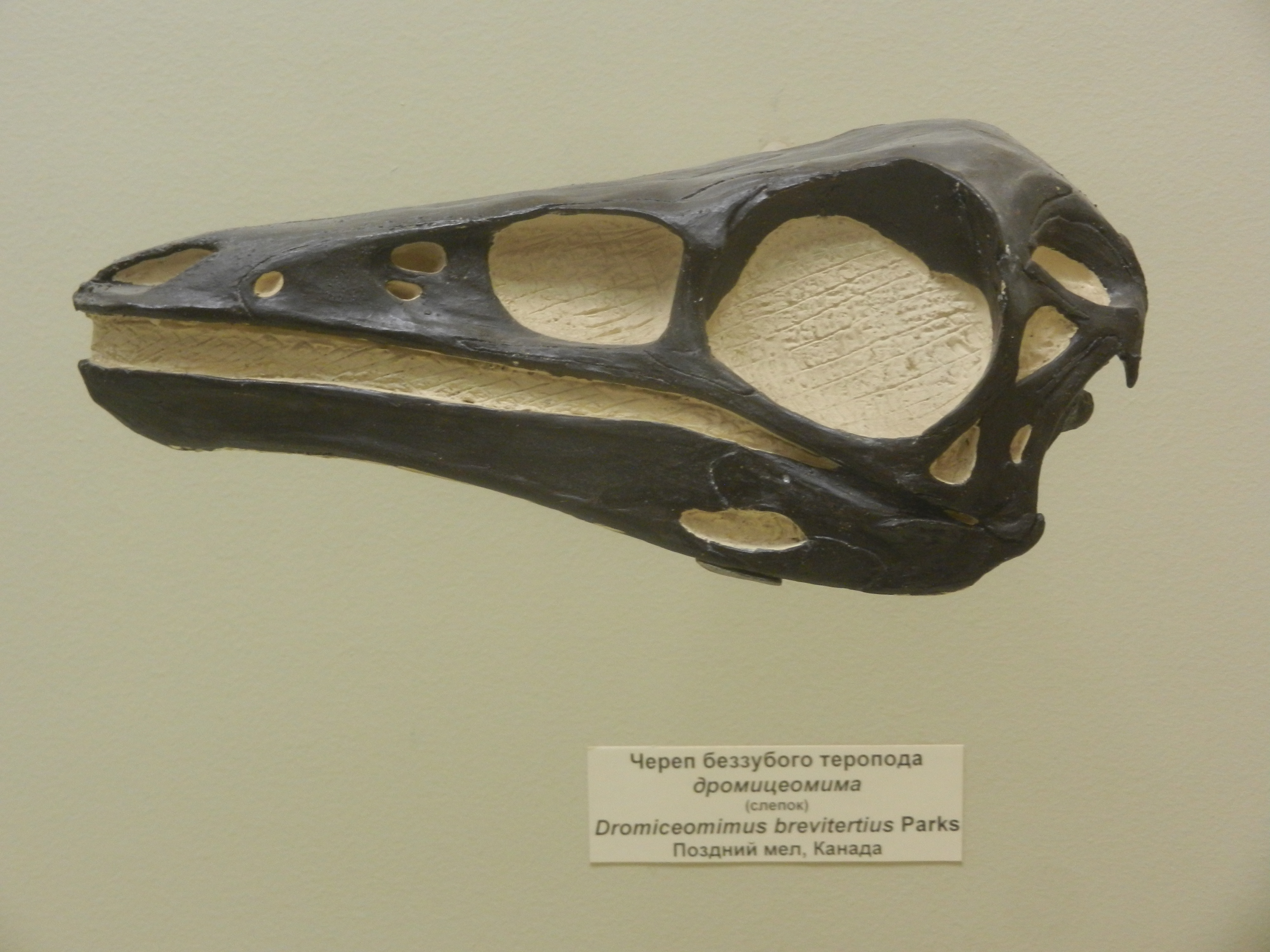 Череп Dromiceiomimus brevitertius